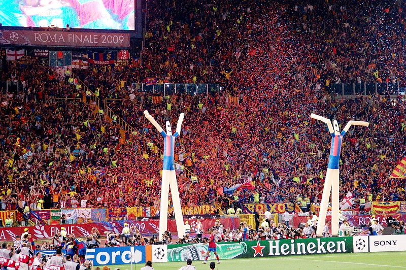 Supporters of FC Barcelona in Roma (UEFA Champions League Final,2009)